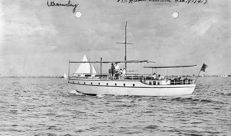 The motorboat Wendy sometime prior to her service as the United States Navy patrol vessel USS Wendy (SP-448).